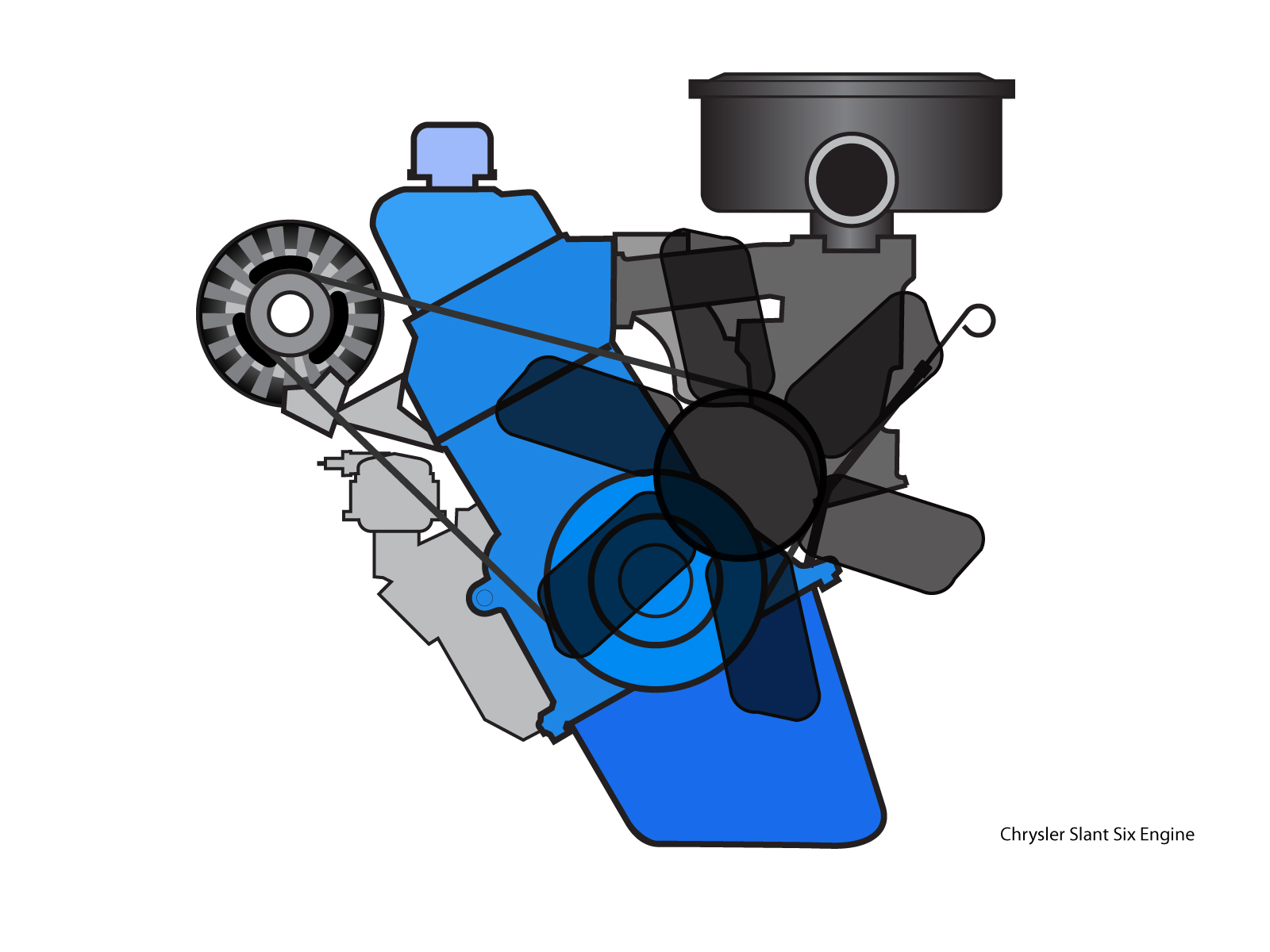 Drawing created in illustrator and photoshop from public domain data information obtained from several internet sources and printed encyclopedias.